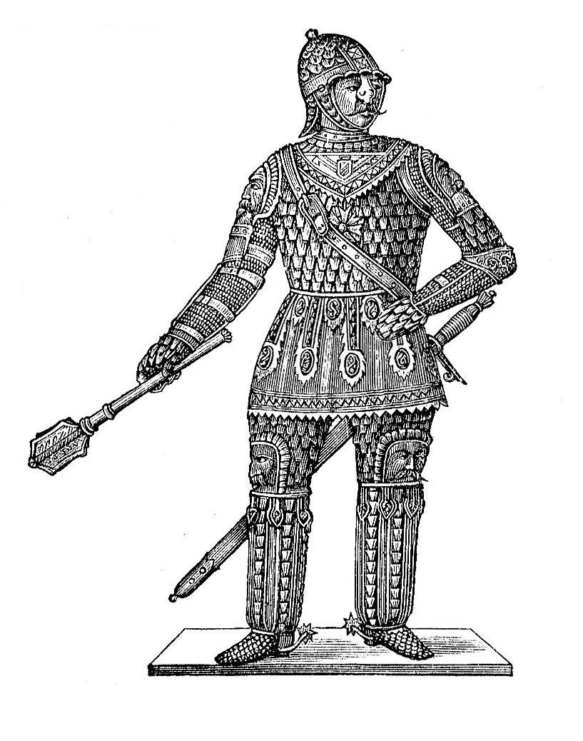 Polish Knight 16th century.